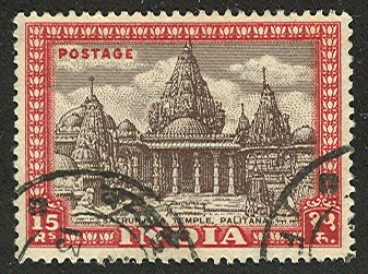 This is a scan I made of a postally used postage stamp originally issued in 1949. It was created by the Government of India, India Post, which is the copyright holder. It is displayed for educational purposes only in Wikipedia's article on "Postage Stamps and Postal History of India".(User FConaway) Changed license to PD-India as the stamp is over 60 years old and is no longer in copyright.AshLin (talk) 18:02, 2 April 2009 (UTC)